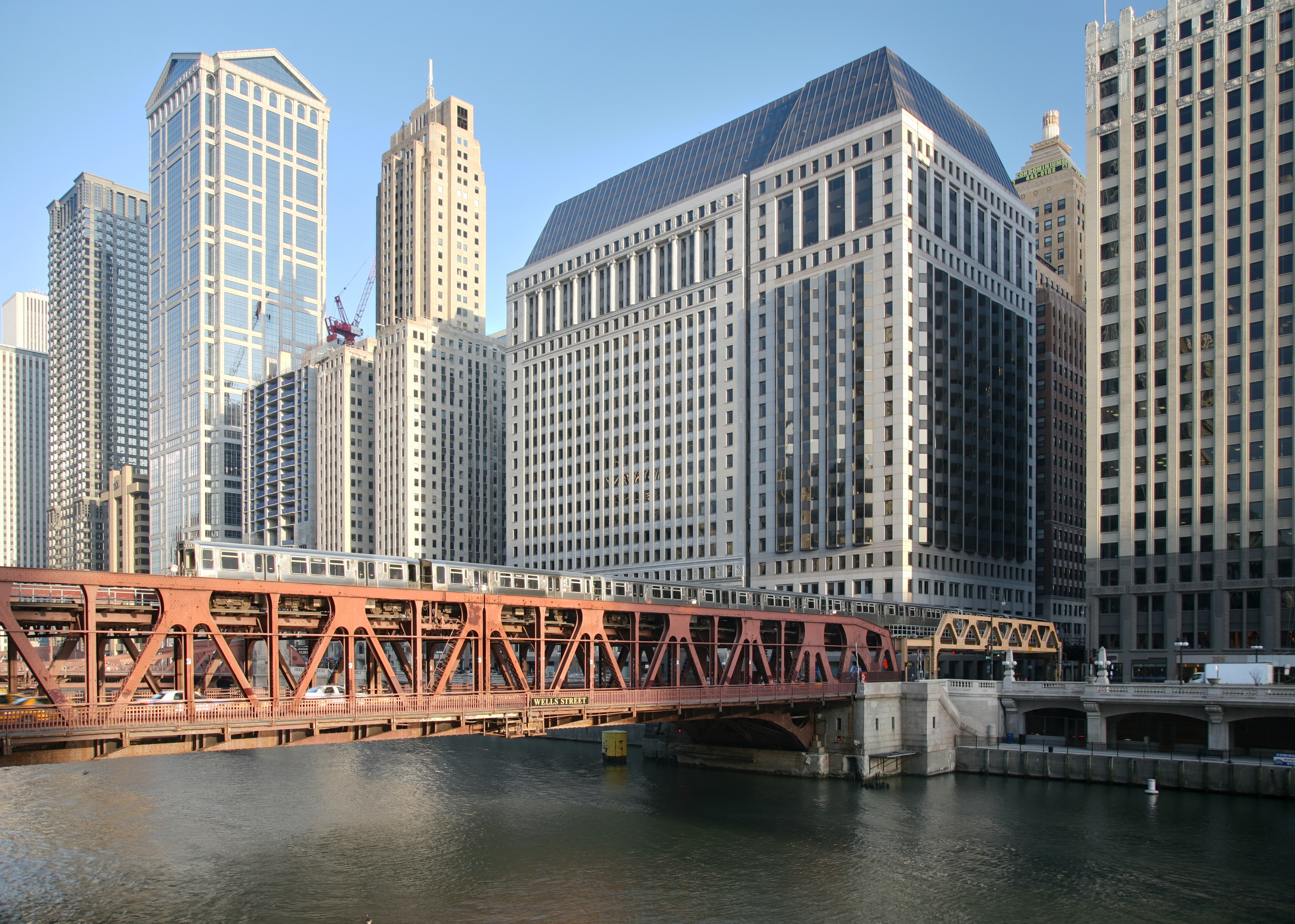 Wells Street Bridge in Chicago This image was created with Hugin.